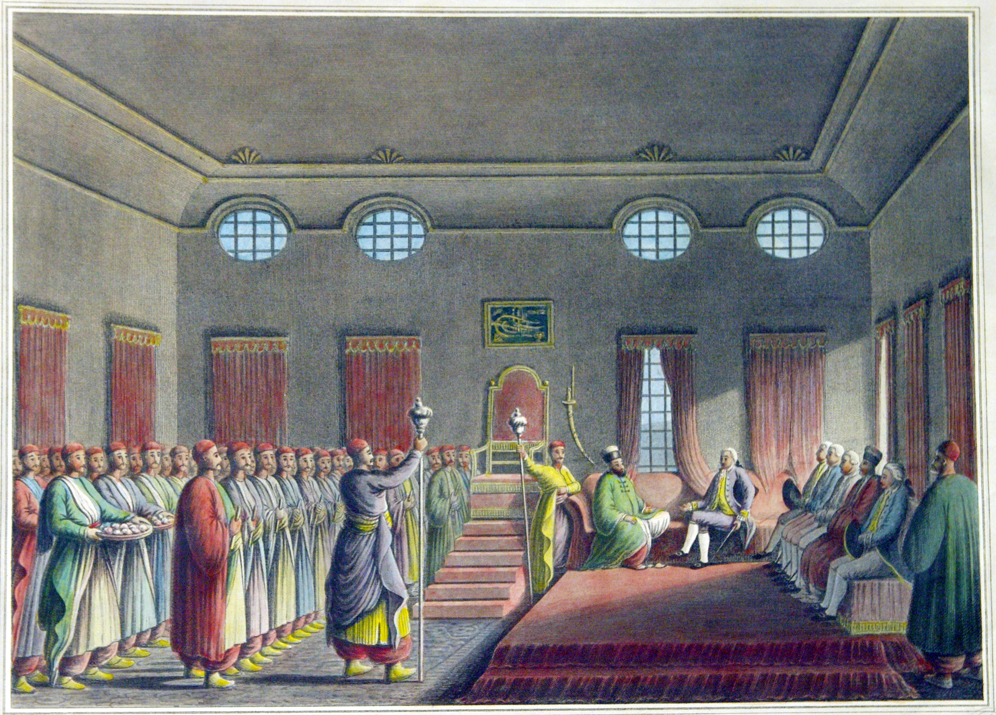 Alexandru Moruzi (Alexander Mourousis) at Curtea Nouă (the "new court", 1776-1812, as distinguished from Curtea Veche, the "old court"), Bucharest. Burnt in 1812, the Curtea Nouă became known as Curtea Arsă ("Burnt Court"). Alexander ruled there 1793-1796, 1798–1801.